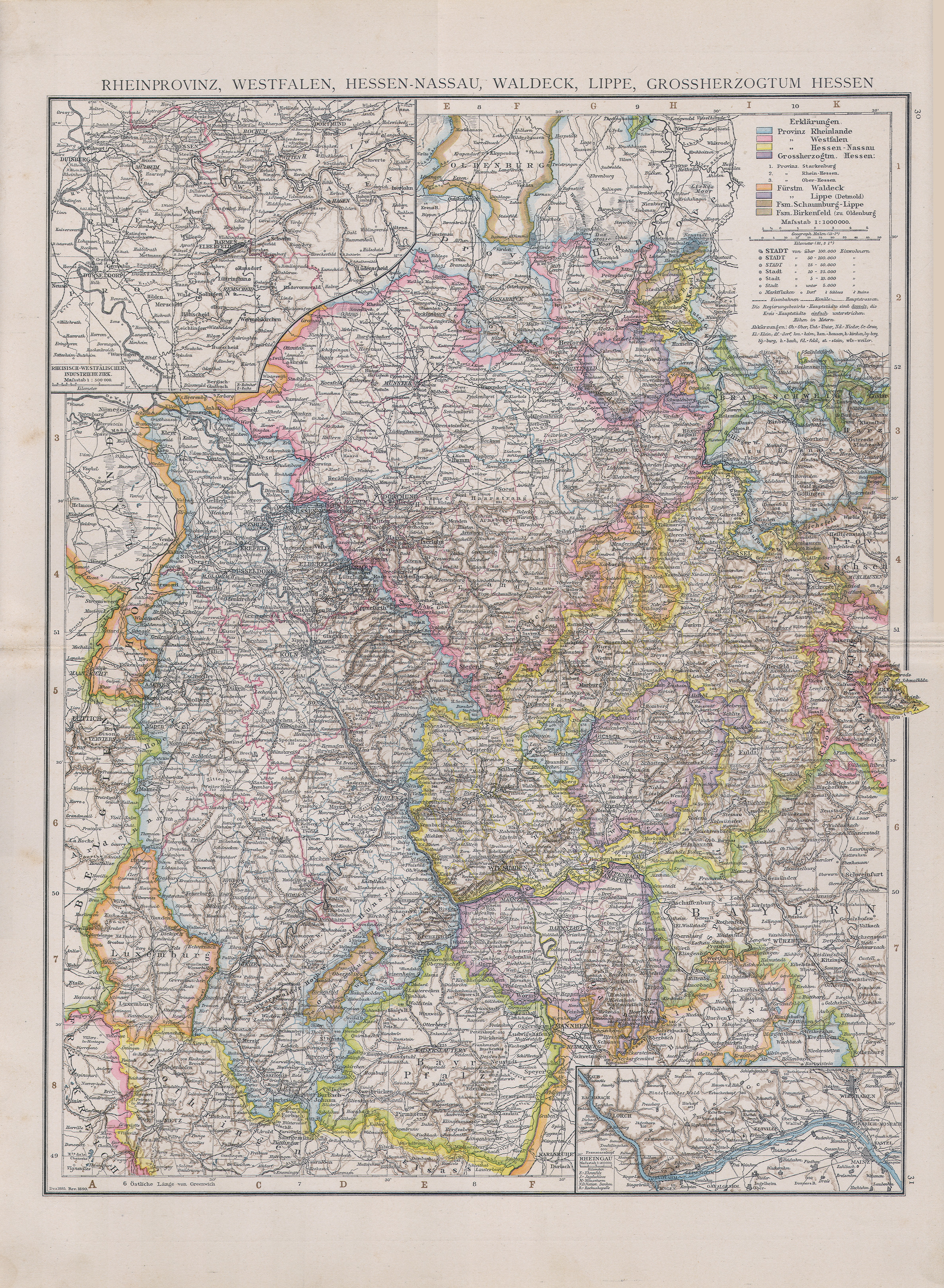 Map of German Provinces Rheinprovinz, Westfalen, Hessen-Nassau, Waldeck, Lippe. 1890